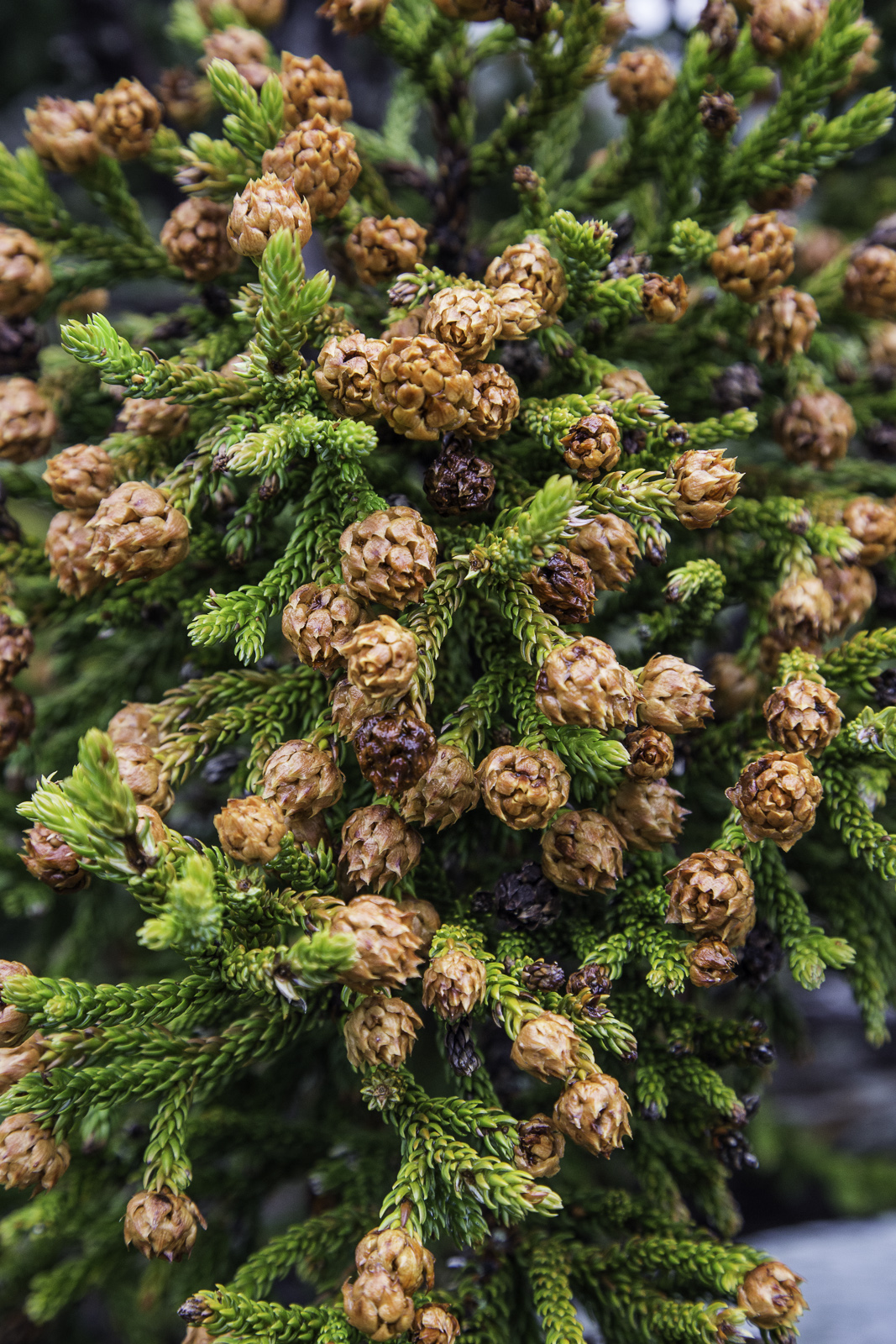 Tasmanian endemic conifer Athrotaxis selaginoides with strobili during mast year (Austral summer 2015), at Lake Osborne, Hartz Mountains National Park, Tasmania.